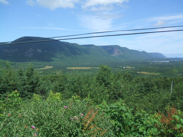 Viewing Sunrise Valley from the Cabot Trail, NS